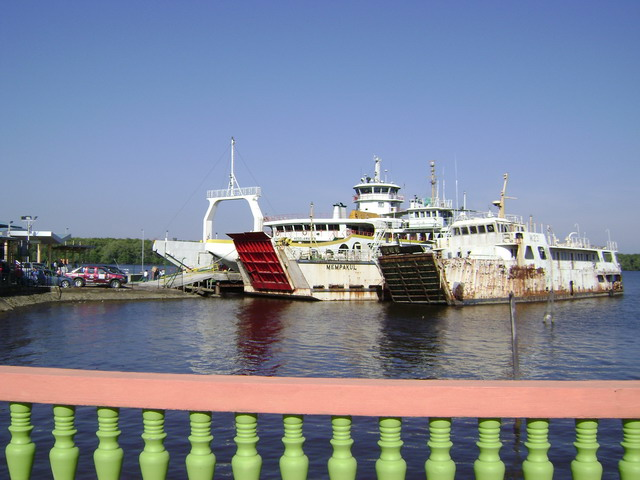 Ferry Terminal, Menumbuk to Labuan.